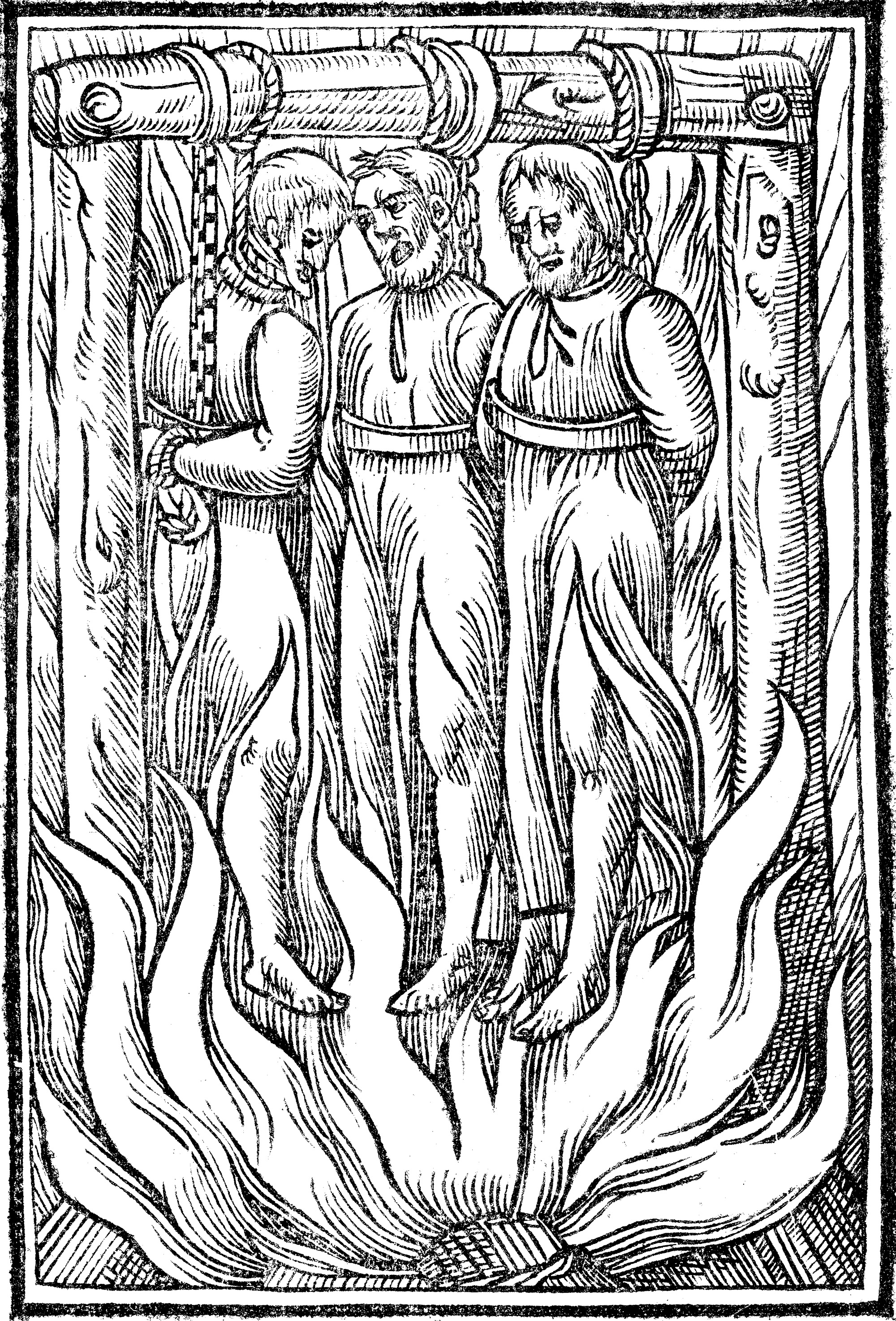 The burning of the Italian Dominican priest Jerome Savonarola and his two companions.